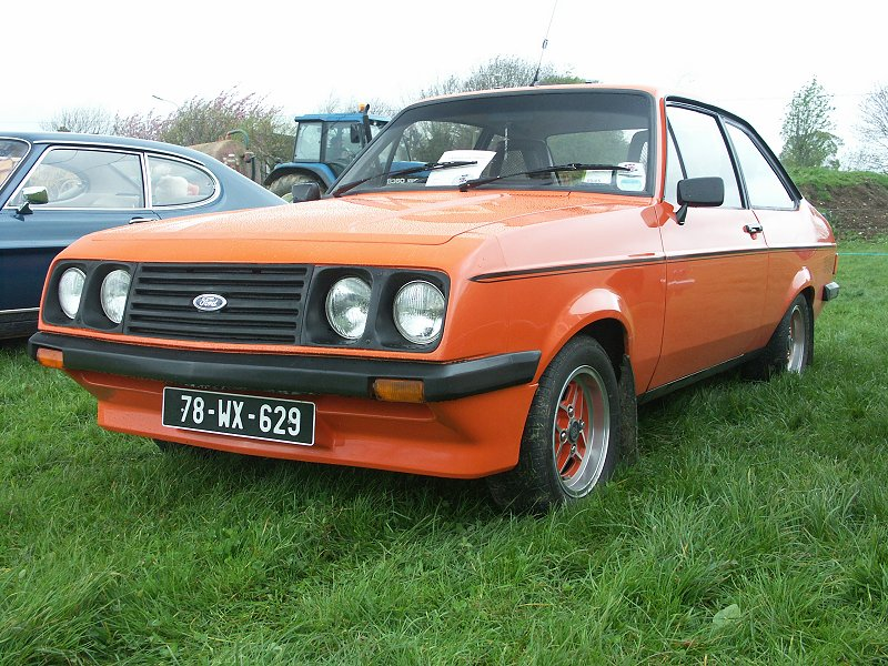 1978 Ford Escort RS2000, photo taken at the 2005 Clonroche Vintage Rally, car has Irish number plates. Photo by Simon Povey..